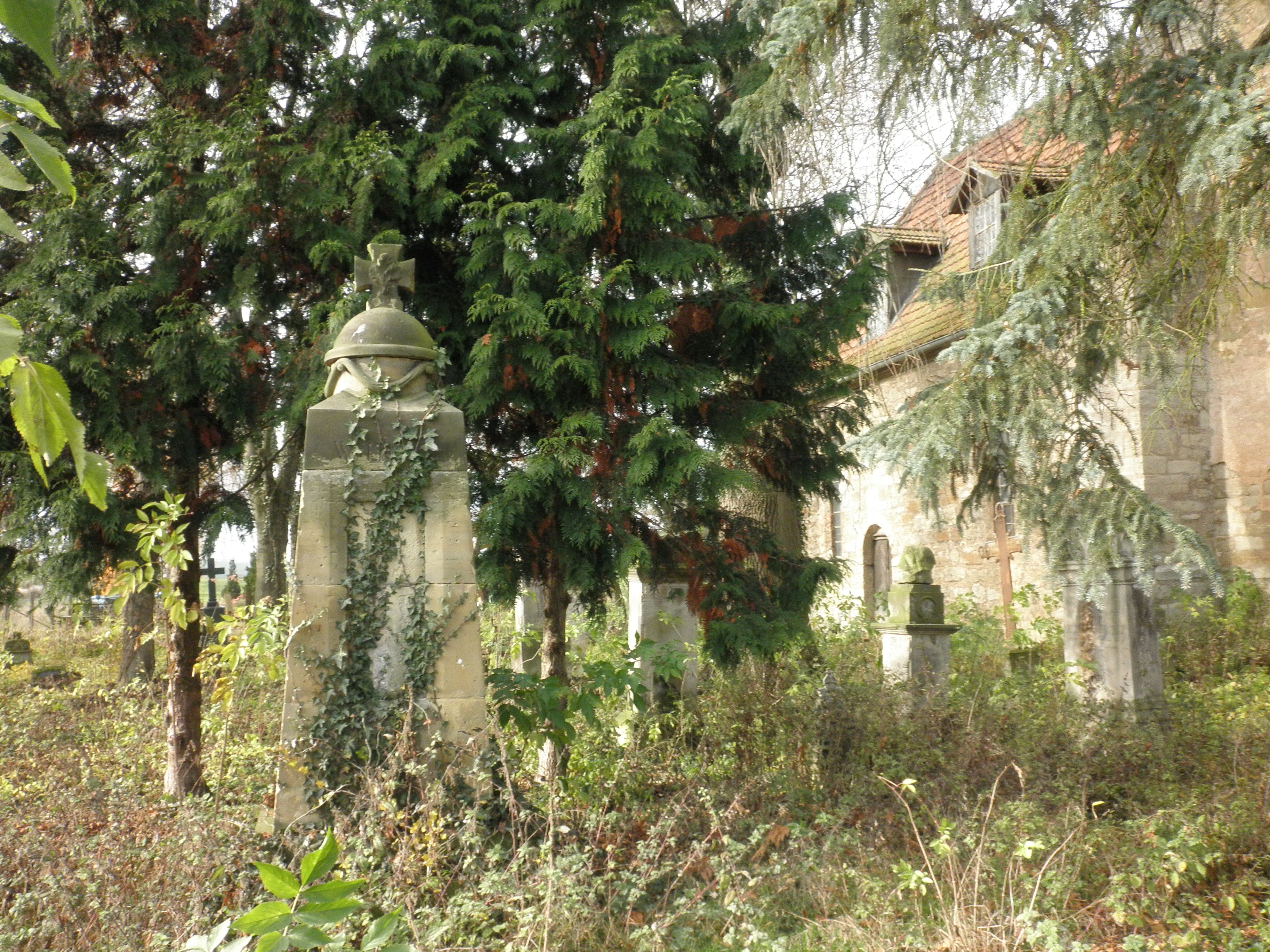 Cemetery in Billeben (Abtsbessingen) in Thuringia